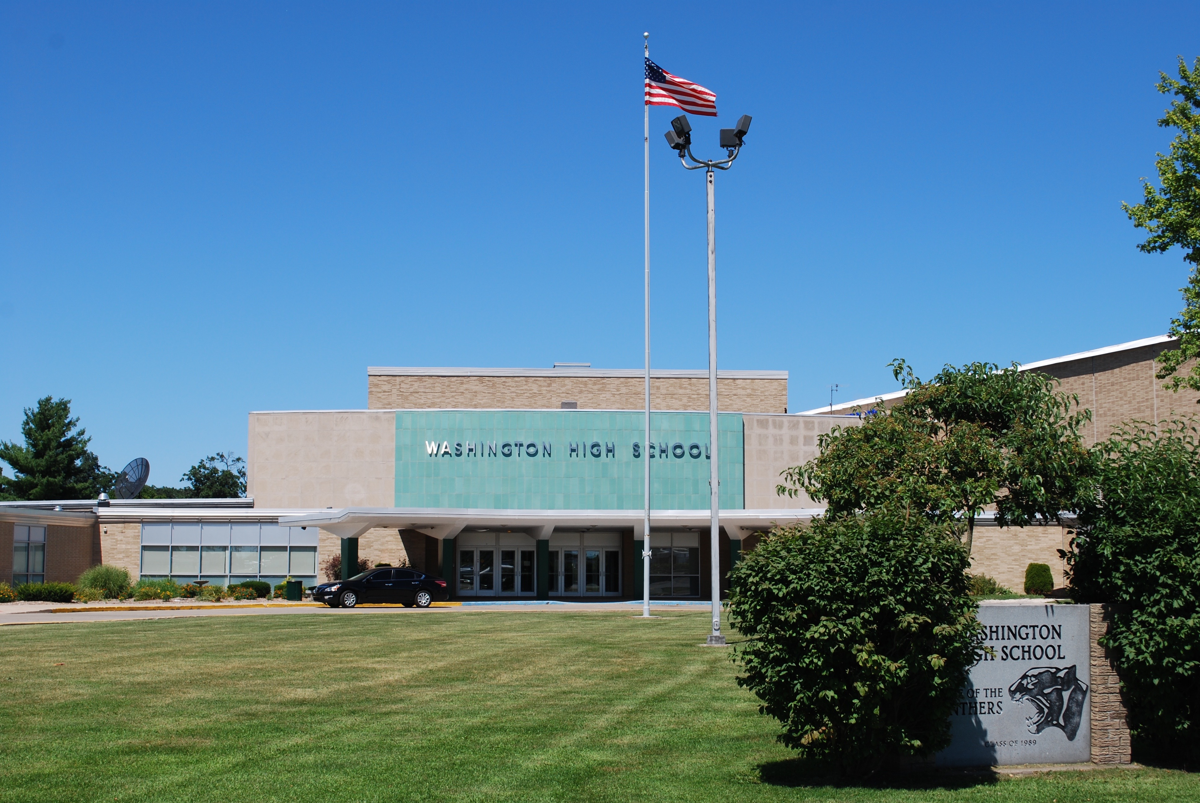 The main entrance to Washington High School in South Bend, Indiana. This photo was taken on 31 July 2015.